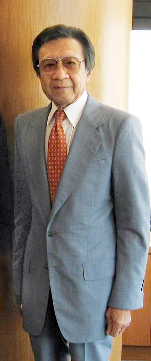 Kenichiro Sato, founder and President of ROHM Co., Ltd.